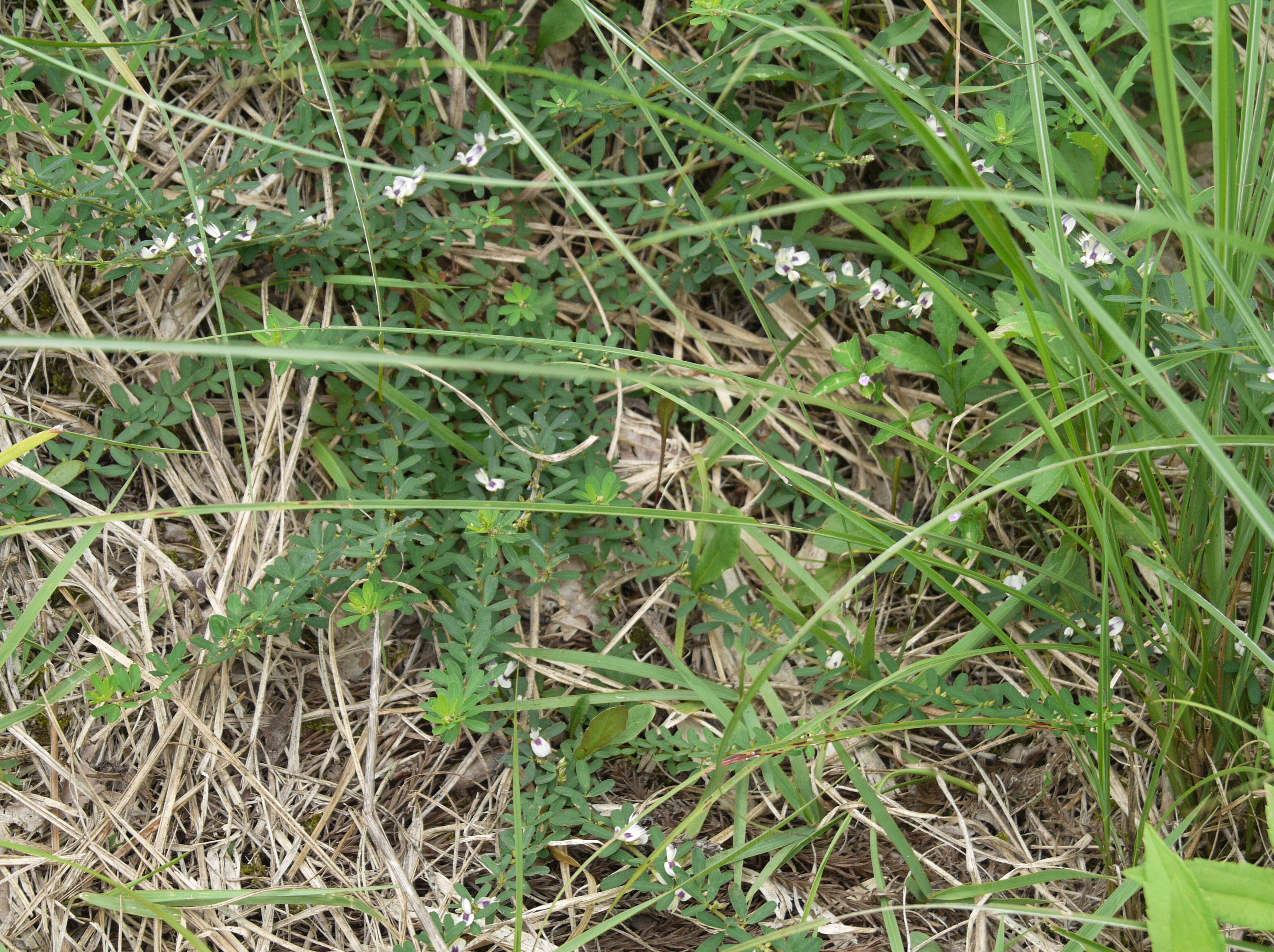 Lespedeza_juncea_var._serpens(Fabaceae)